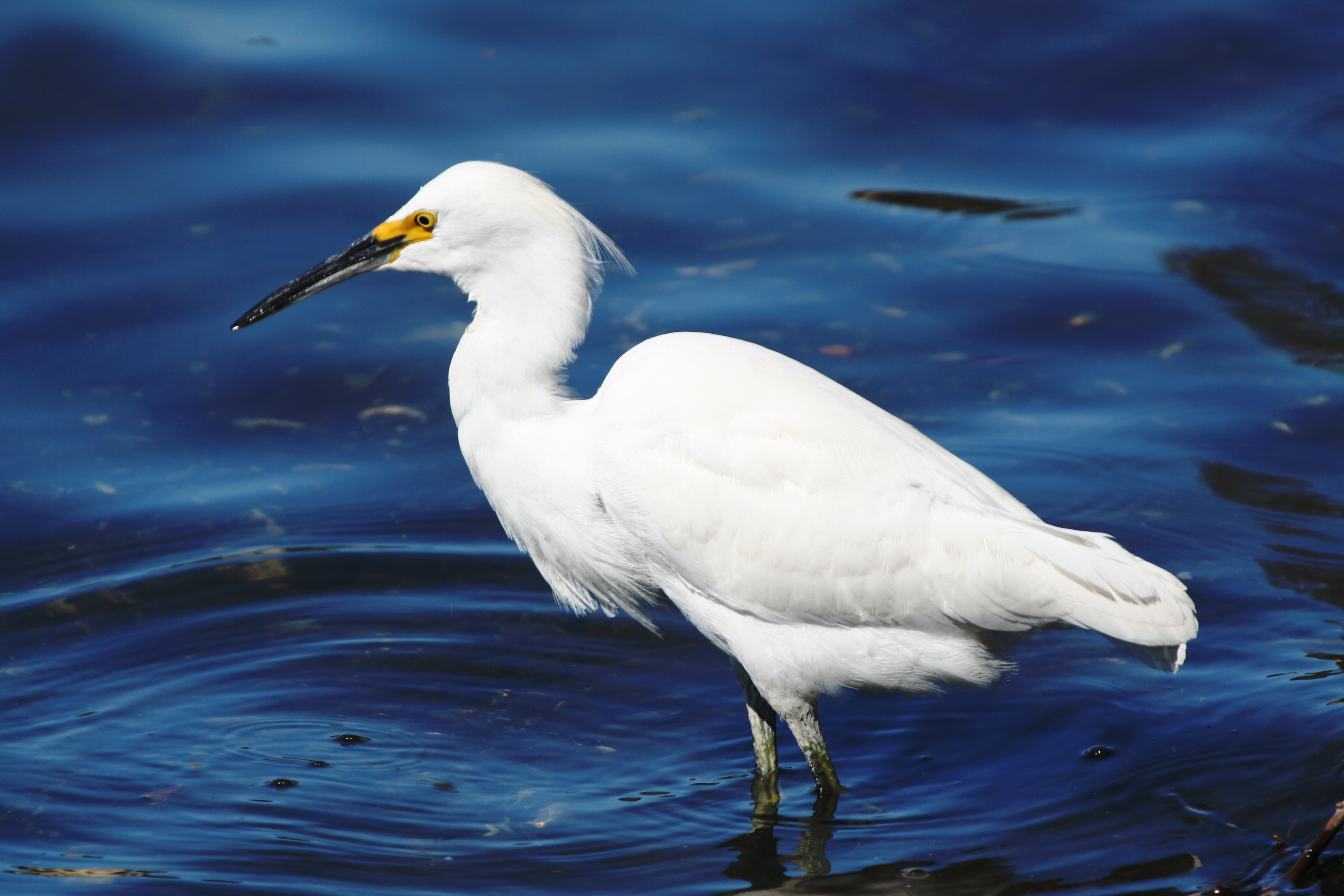 Snowy Egret Egretta thula photographed by and copyright of (c) David Corby (User:Miskatonic, uploader) 2006